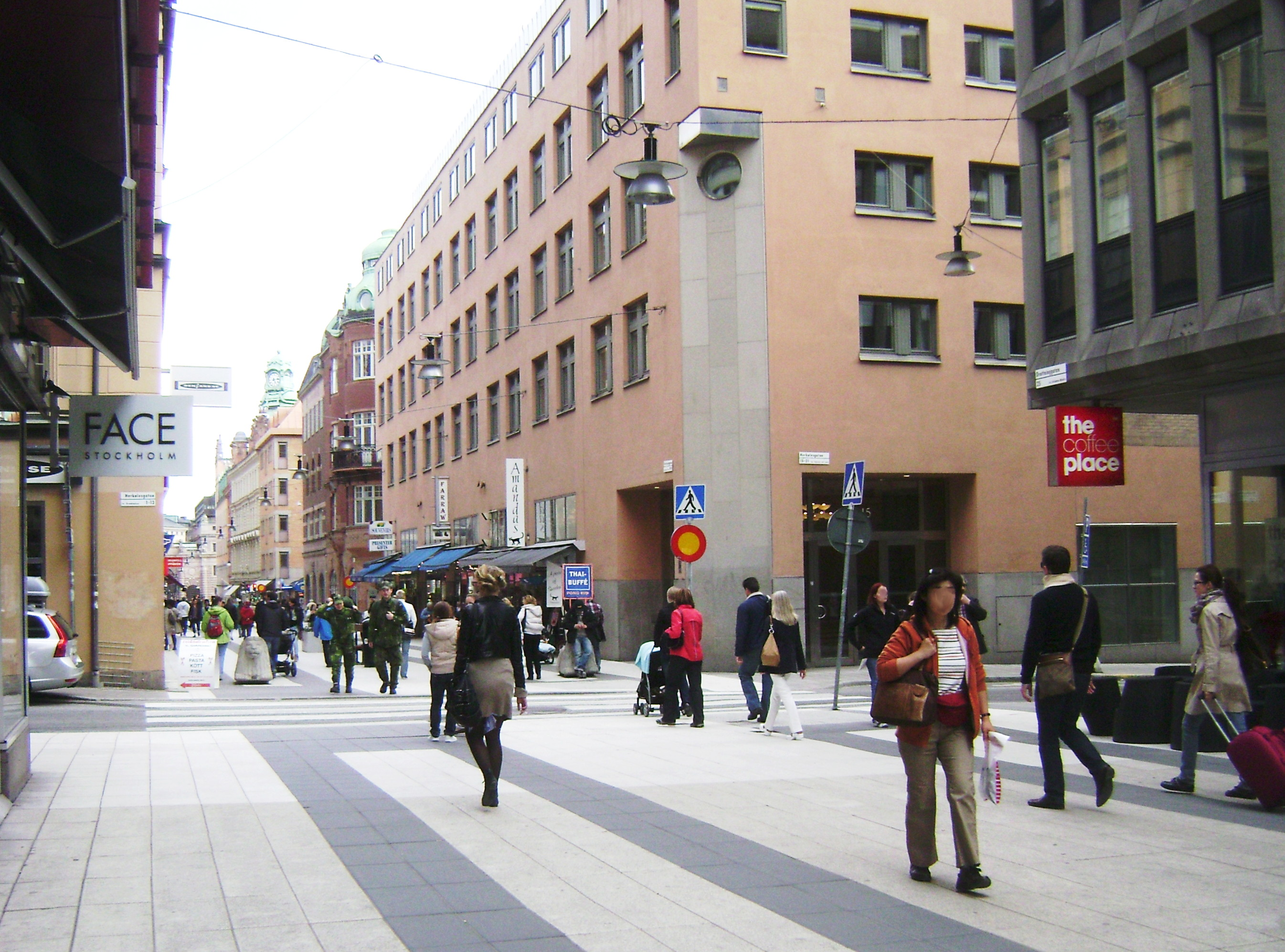 Sweden. Stockholm. Norrmalm, Drottninggatan